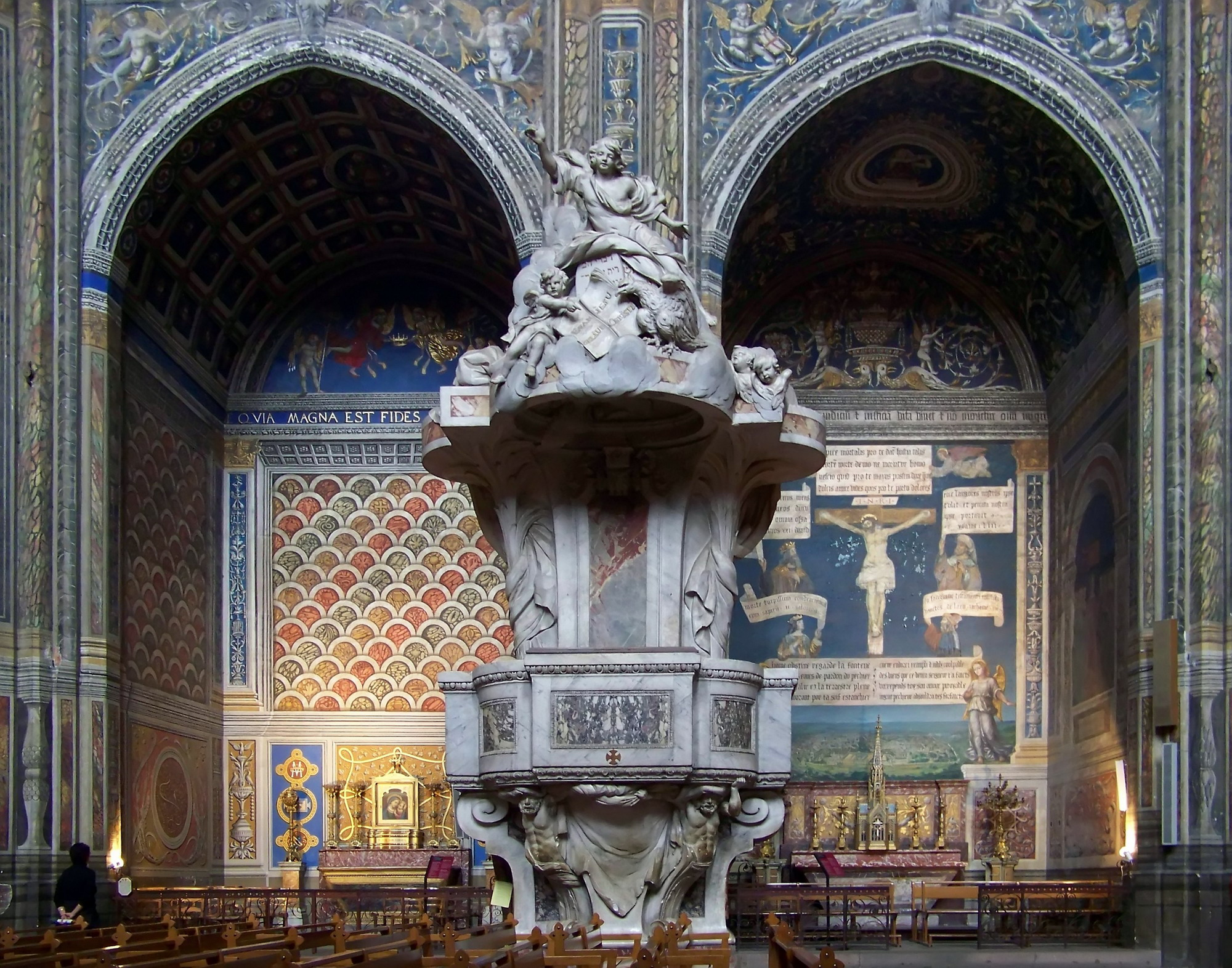 Pulpit of the cathedral Saint-Cecilia in Albi